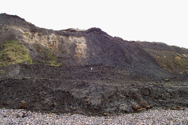 Cliffs below Reculver Country Park. The coast is retreating here as the London Clay which overlies the soft Tertiary sandstones gets wet and mudflows carry the clay on the beach where it is washed away by the sea.